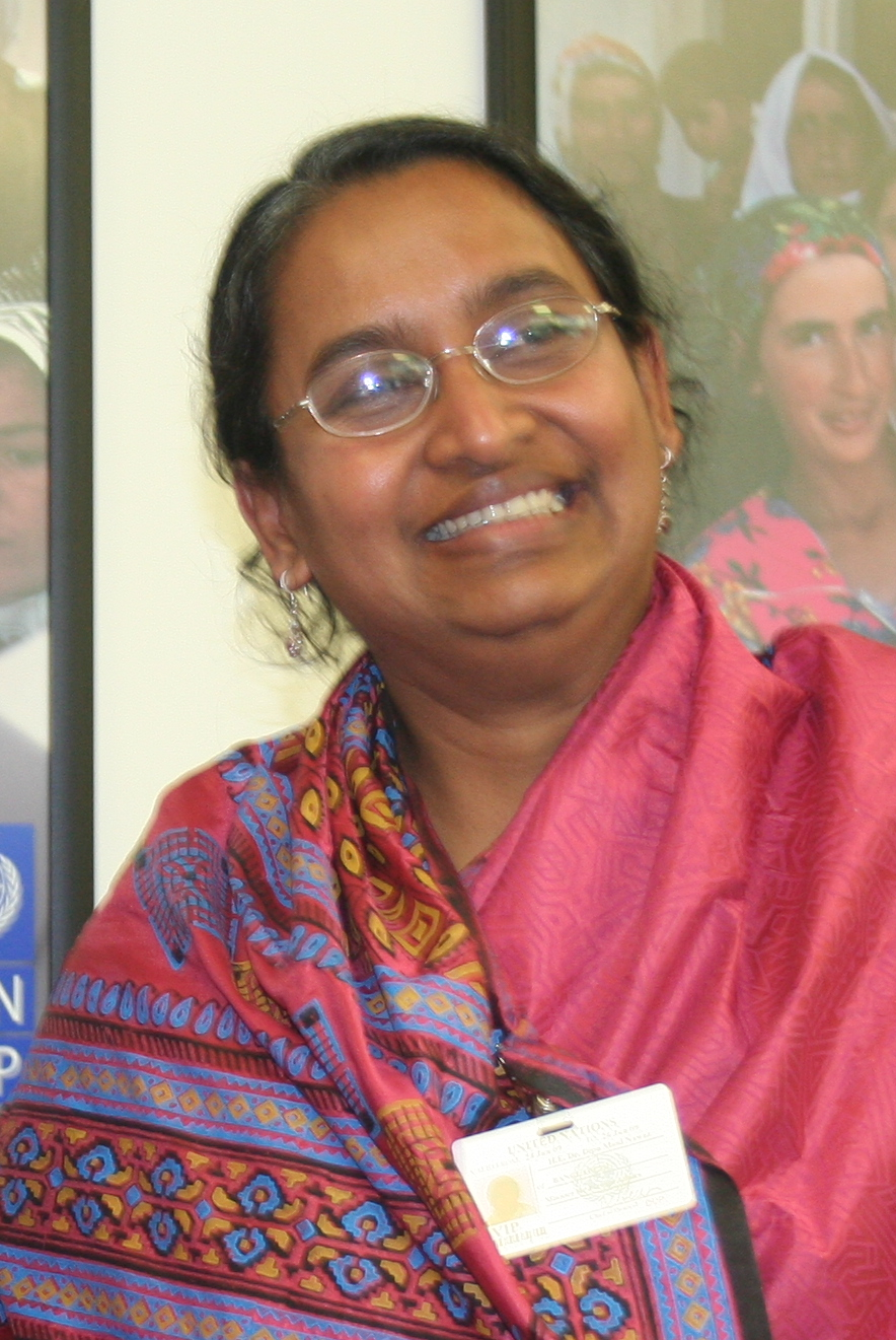 26/06/2009 - Helen Clark meets with the Foreign Minister of Bangladesh, Dr. Dipu Moni, in New York.